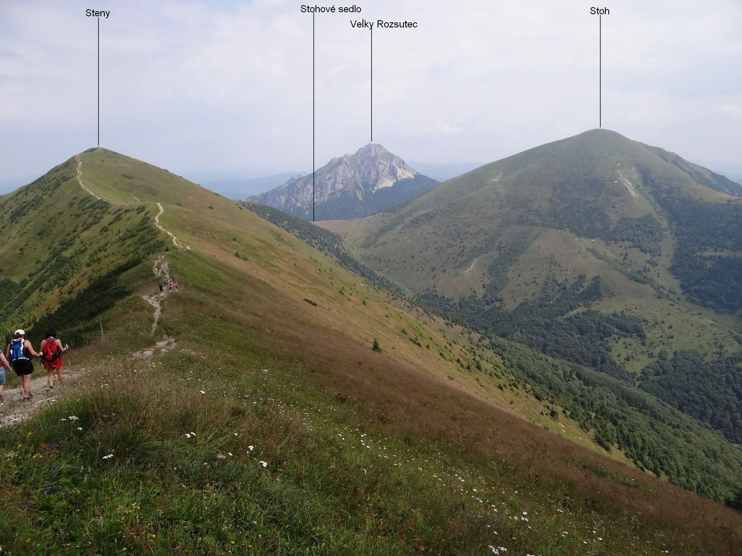 View from Steny